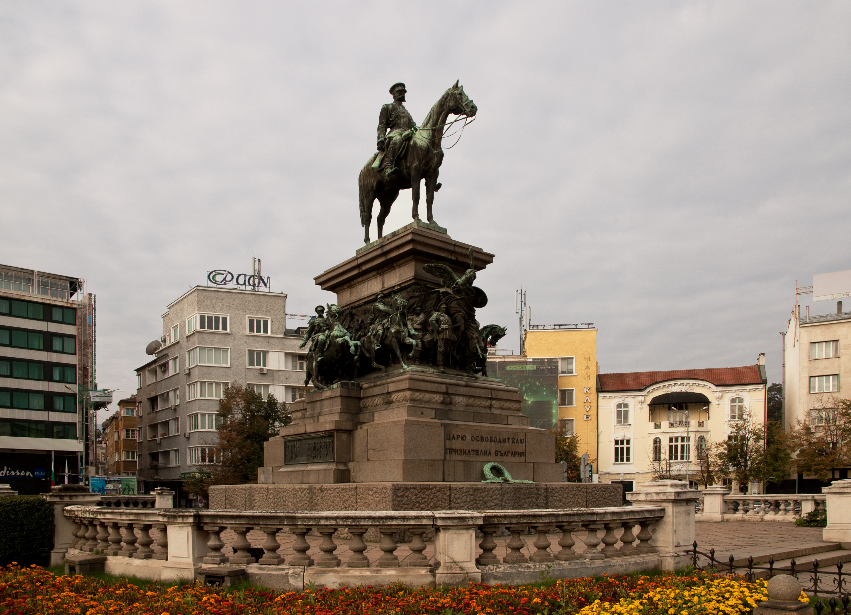 Tsar Liberator monument in front of the Bulgarian parliament, Sofia.